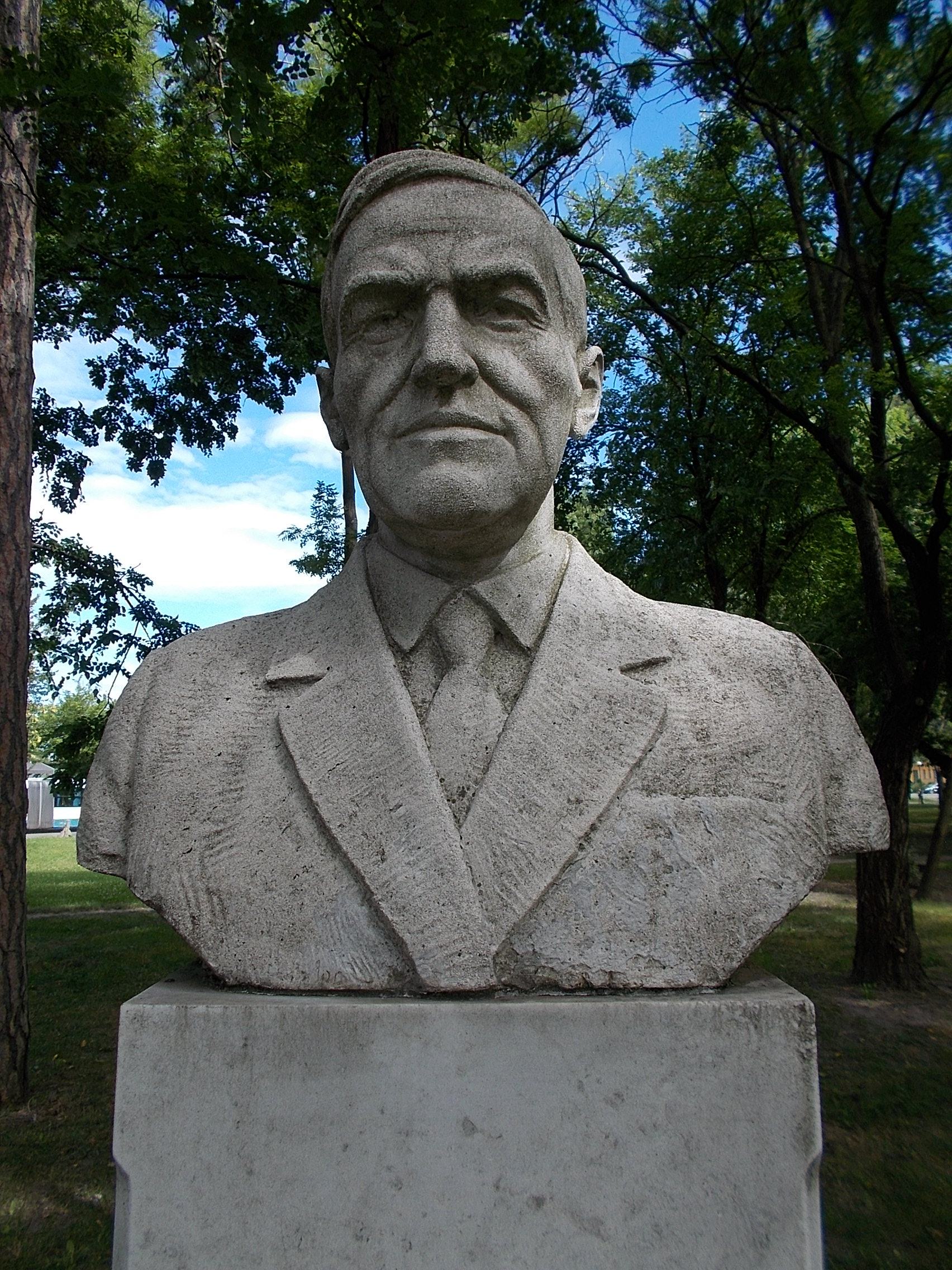 Bust of László Tóth by Gábor Imre. - Katona József Park, Kecskemét, Bács-Kiskun County, Hungary.